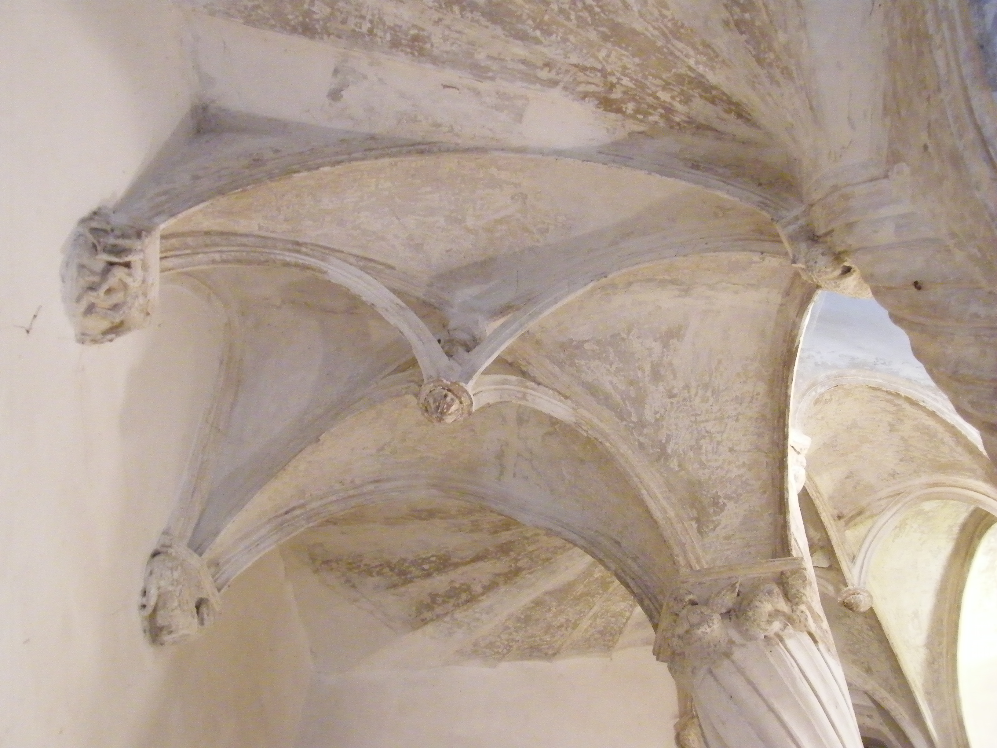 Gypserie Hotel de Mazan Riez la Romaine France